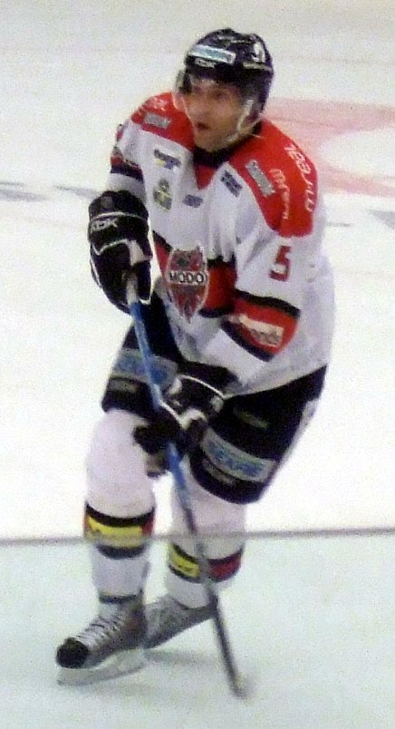 Ice hockey player Hans Jonsson of MODO Hockey in E.ON Arena, Timrå, Sweden